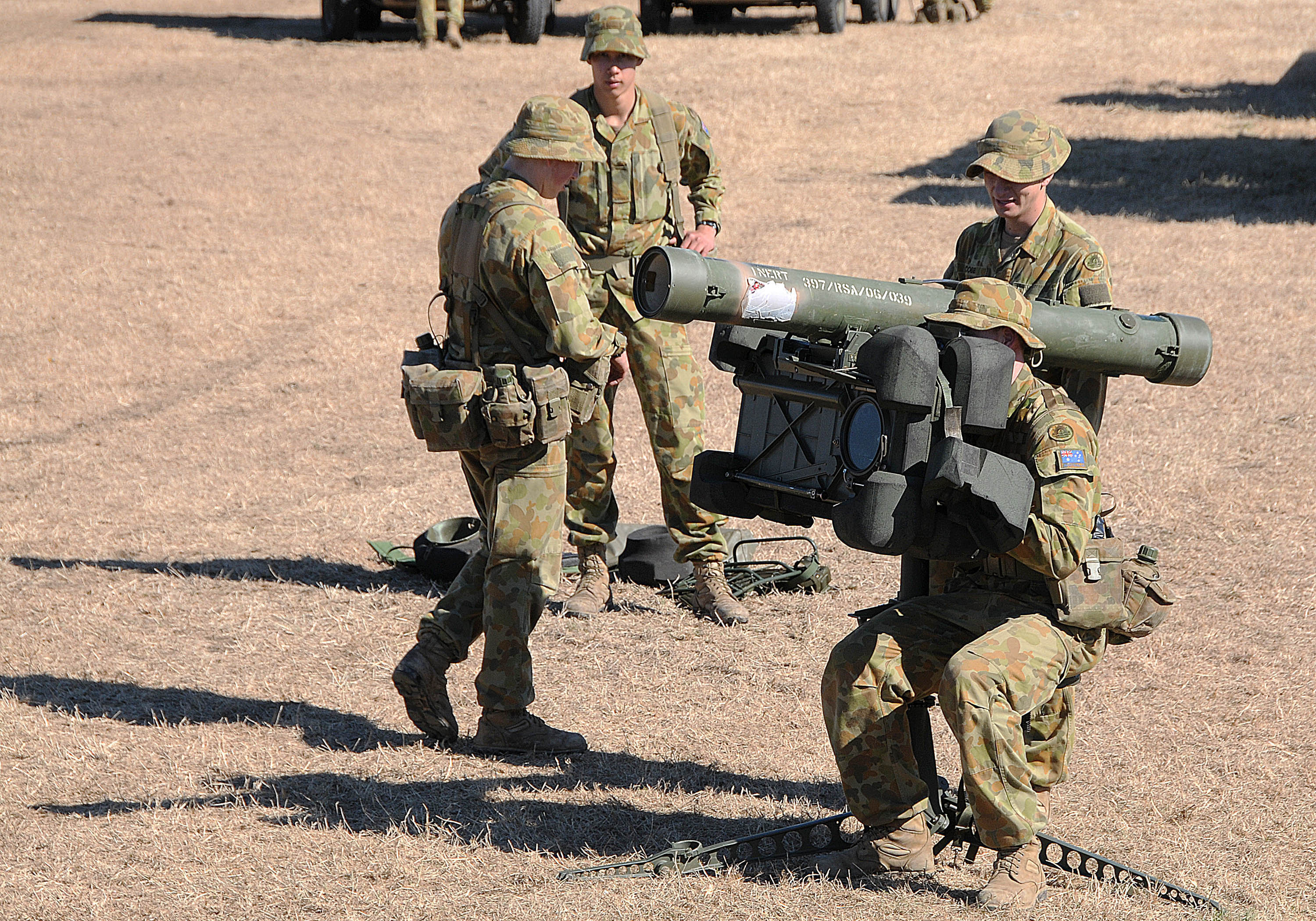 ROCKHAMPTON, Queensland, Australia (July 17, 2011) Australian Defence Force Gunner Luke Pozzoli aims a RBS-70 Ground Based Air Defence System after the section completes a one minute, thirty second assembly during rapid deployment drills. The 16th Air Defence Regiment, based in Woodside, South Australia, is part of the Australian Defence Force participating in Talisman Sabre 2011. TS11 is an exercise designed to train U.S. and Australian forces to plan and conduct Combined Task Force operations to improve combat readiness and interoperability on a variety of missions from conventional conflict to peacekeeping and humanitarian assistance efforts.